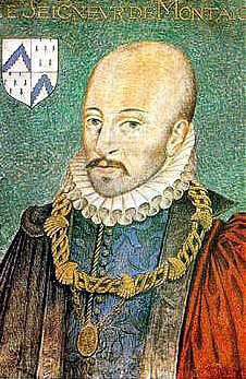 Depicted person: Michel de Montaigne